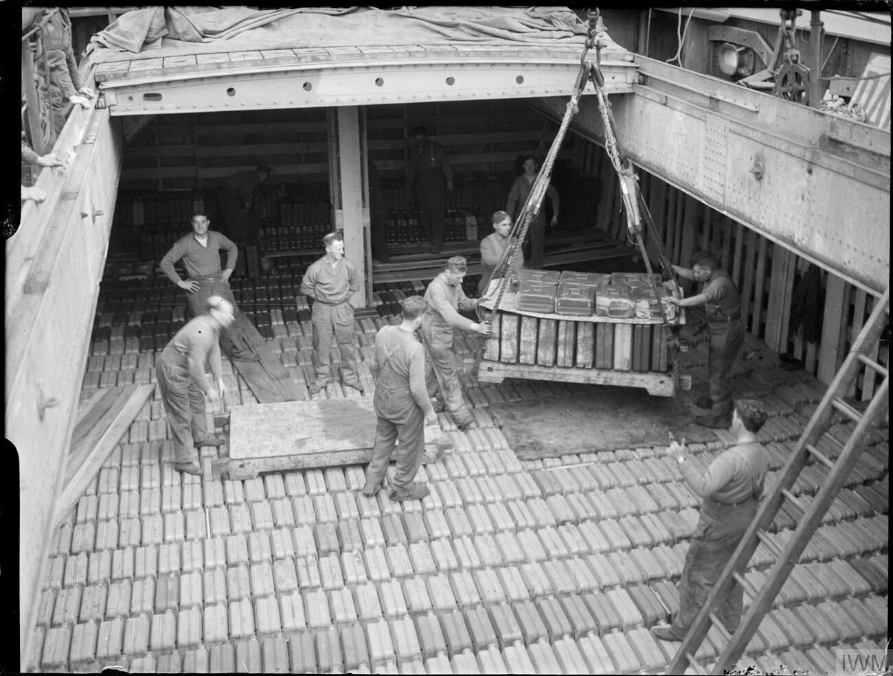 Invasion Build-up- Preparations For the D-day Landings, UK, 1944 Jerry cans of petrol are lowered by crane into the hold of a ship at a port, somewhere in Britain, in preparation for transportation to the Second Front.